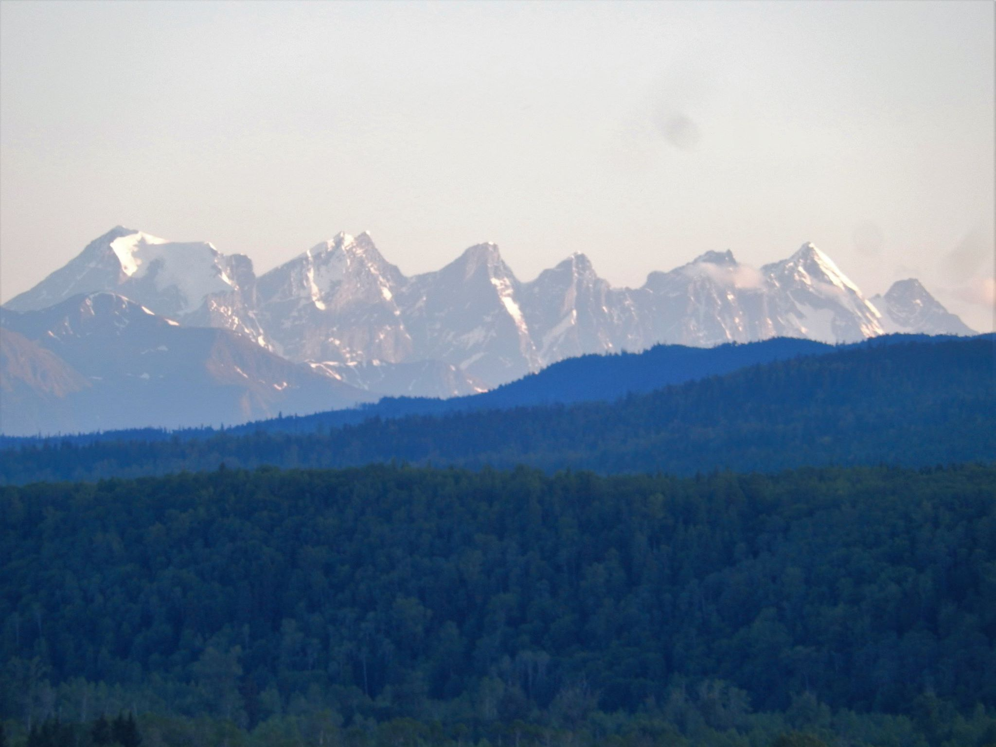 View of Seven Sister Peaks in BC Canada